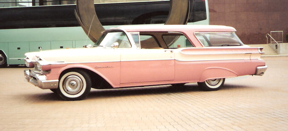 1957 Mercury Commuter 2-door hardtop station wagon I photographed in Michigan in June 2001.